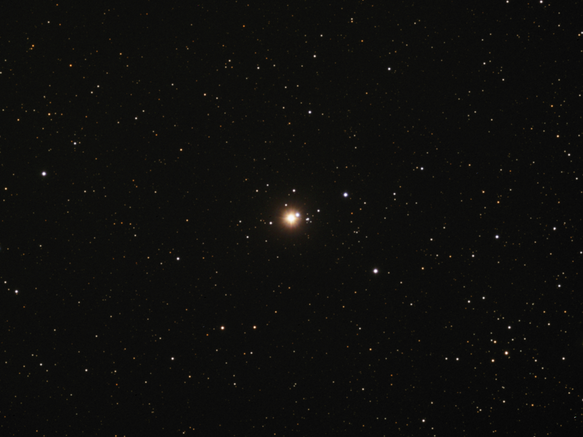 Eta Persei in optical light. Photographed from Edmonton, Canada.